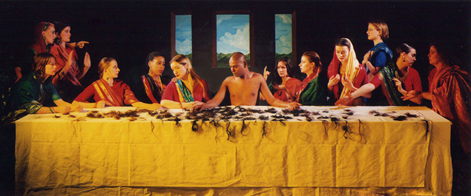 Image of the photograph "Resurrection" by the artist George ChakravarthiPhotograph (original approximately 12 feet by 5 feet) based on the Last Supper by Da Vinci